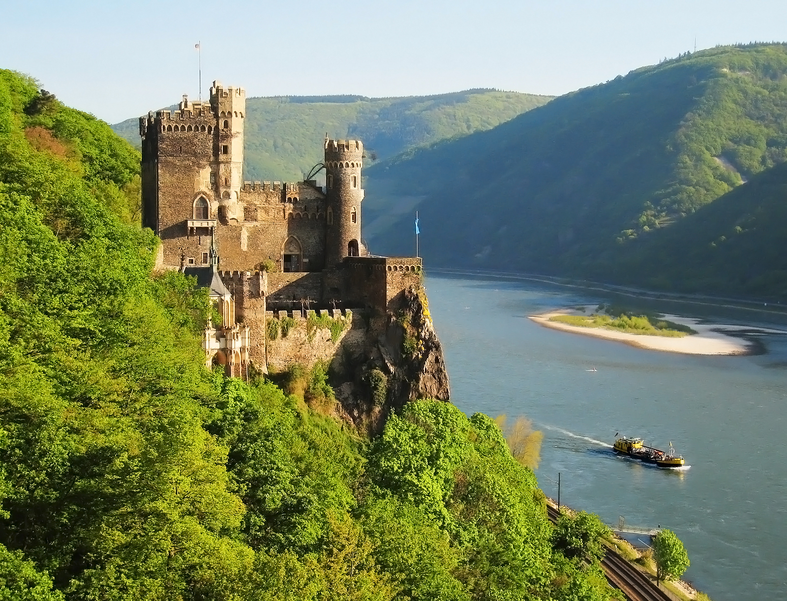 Rheinstein Castle is a medival castle near the village of Trechtingshausen on the Middle Rhine in Germany